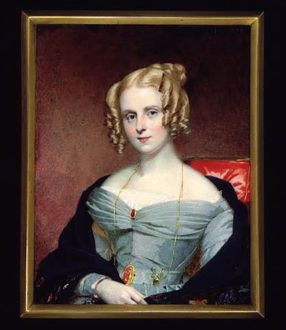 Anne McGillivray, née Easthope Title / Titre :Anne McGillivray, née Easthope Creator(s) / Créateur(s) : Andrew Robertson (1777-1845) Date(s) : 1838 Reference No. / Numéro de référence : MIKAN 2837424 / C-095766 Credit / Mention de source : Library and Archives Canada, C-095766 / Bibliothèque et Archives Canada, C-095766 Description / Descriptions : Simon McGillivray married Anne Easthope (1808-1869) the daughter of his business associate in 1837 and this portrait miniature of her was painted soon after. Dated 1838, it bears the artist's monogram. The sumptuous details of her dress and jewellery reflect the sitter's comfortable station at this time of her life. Her portrait by Robertson, which may be this one, appears in Royal Academy records for 1839. The National Archives also holds an earlier, simpler, yet charming miniature portrait of a more youthful Anne dated ca. 1830. All three McGillivray miniatures were donated by a family descendant in 1967. /